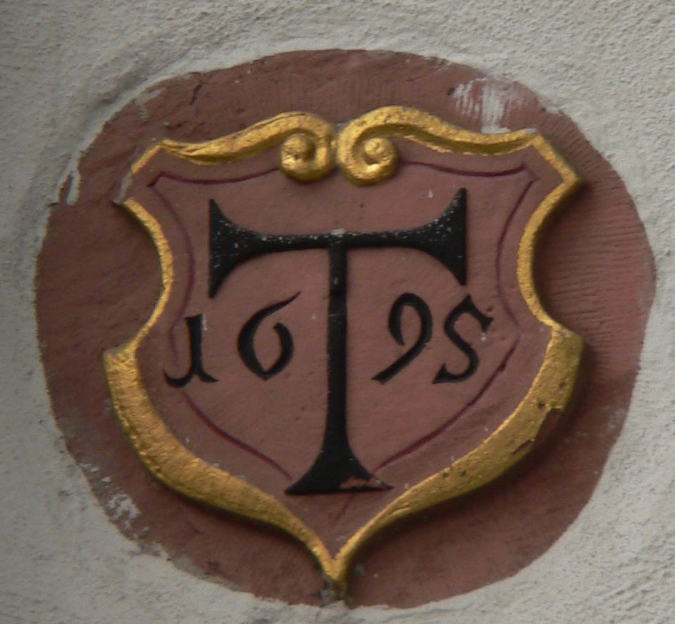 Cross of the Canonici Regulares Sancti Antonii at the north facade of the former Antoniter monastery in Höchst